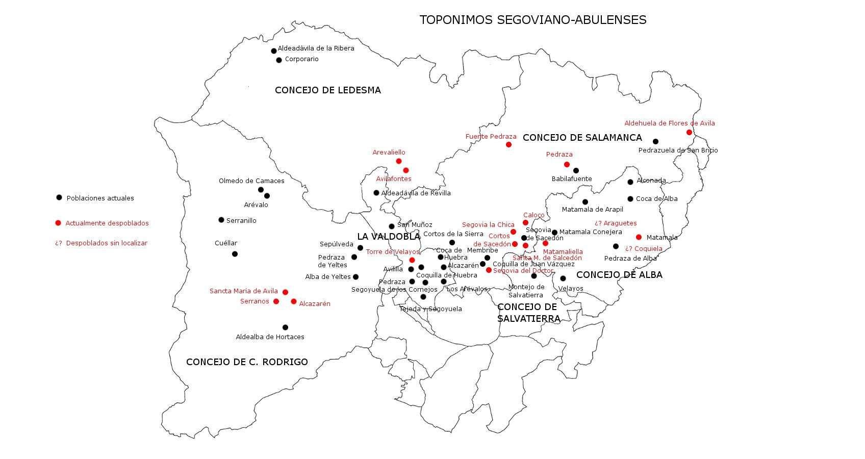 Distribución geográfica de los topónimos en cuestión.